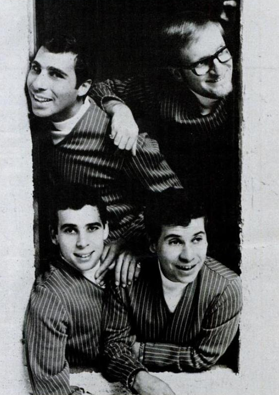 Trade ad for The Tokens's single "Portrait Of My Love".To better adapt it to his respective Wikipedia article, the ad was cropped and cleaned in a graphics editing program. The original can be viewed at the source below.